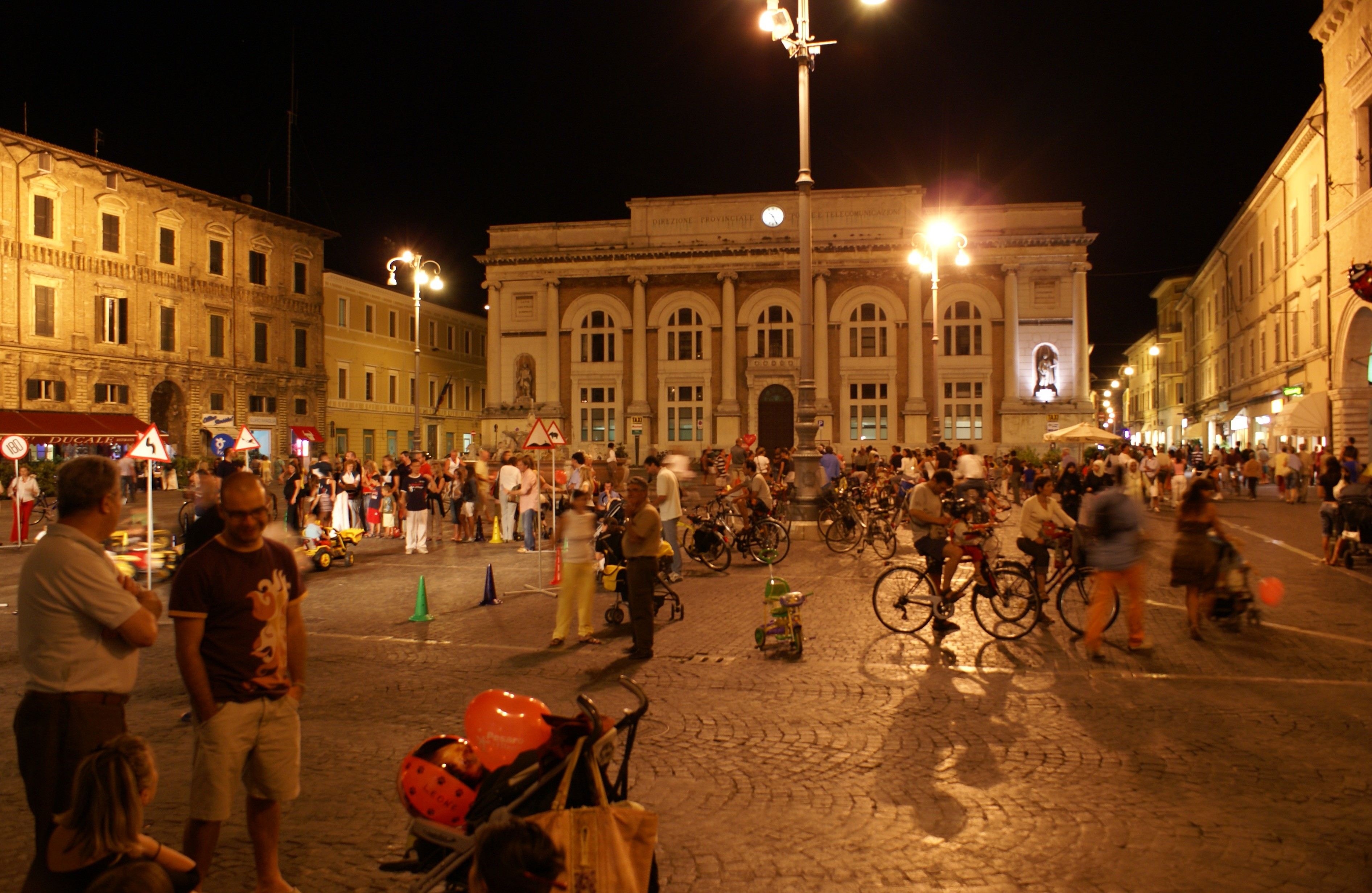 The Piazza del Popolo (the People's Square), the main town square of the city of Pesaro in the Marche region of Italy.